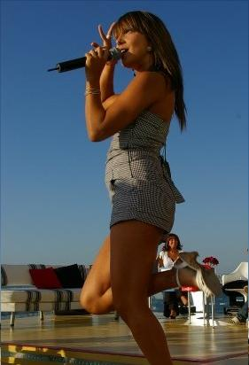 Denise singing in a tv show.